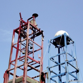 Deák-Dénes fountain detail (Székesfehérvár, Hungary)